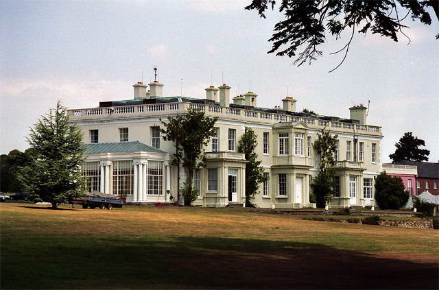 Barham Court, Teston, Kent. A Grade II* listed building.